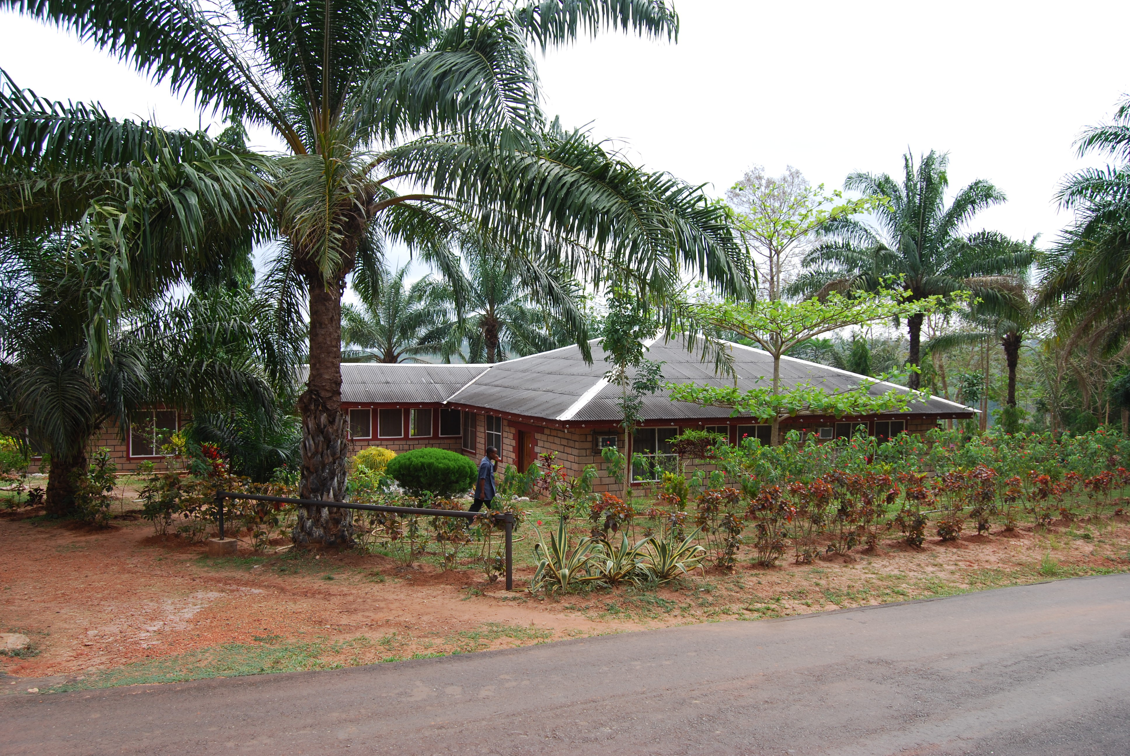 Paxherbal Center View from outside remote